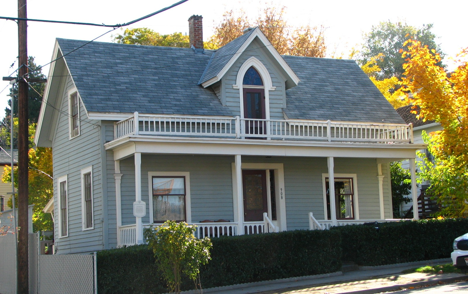 The historic Orlando Humason House (built 1860), located at 908 Court Street in The Dalles, Oregon, United States, is listed on the US National Register of Historic Places.